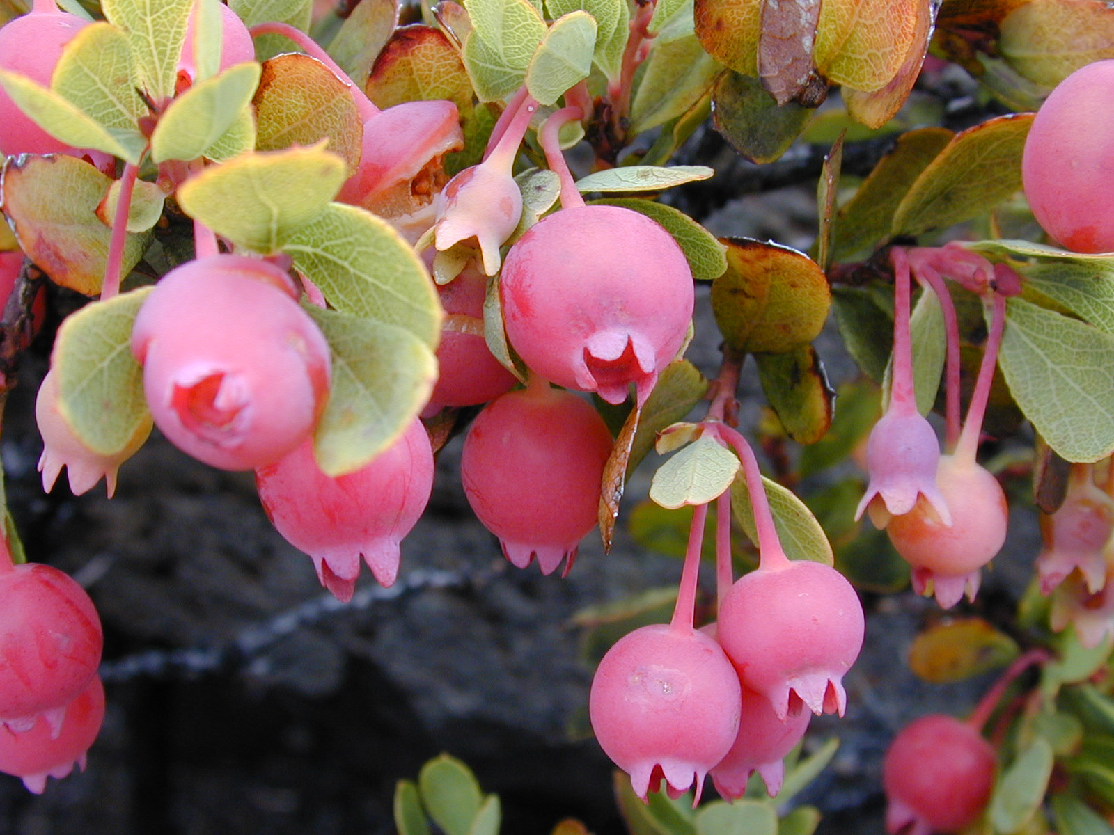 Vaccinium reticulatum (fruits). Location: Maui, Kalahaku Haleakala National Park